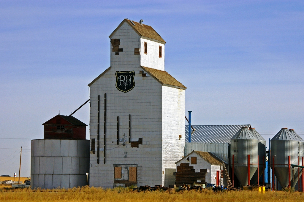 Grain elevator, Stirling, Alberta